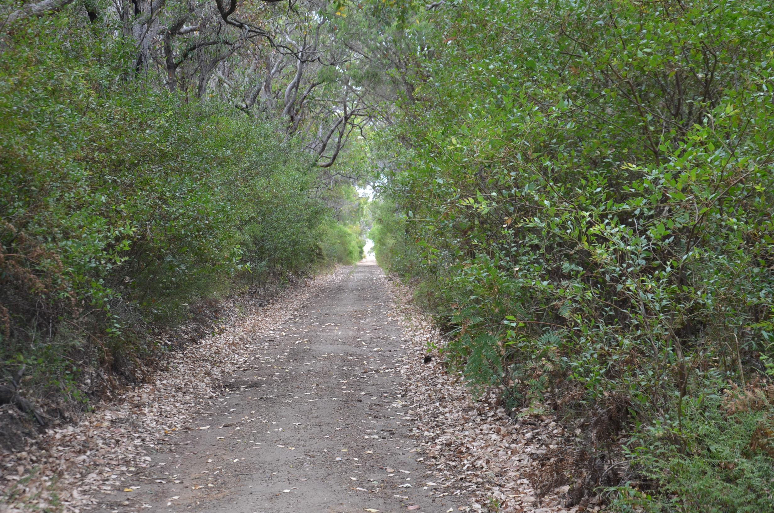 Former railway line formation between the Augusta airport and Flinders Bay - Flinders Bay Branch Railway